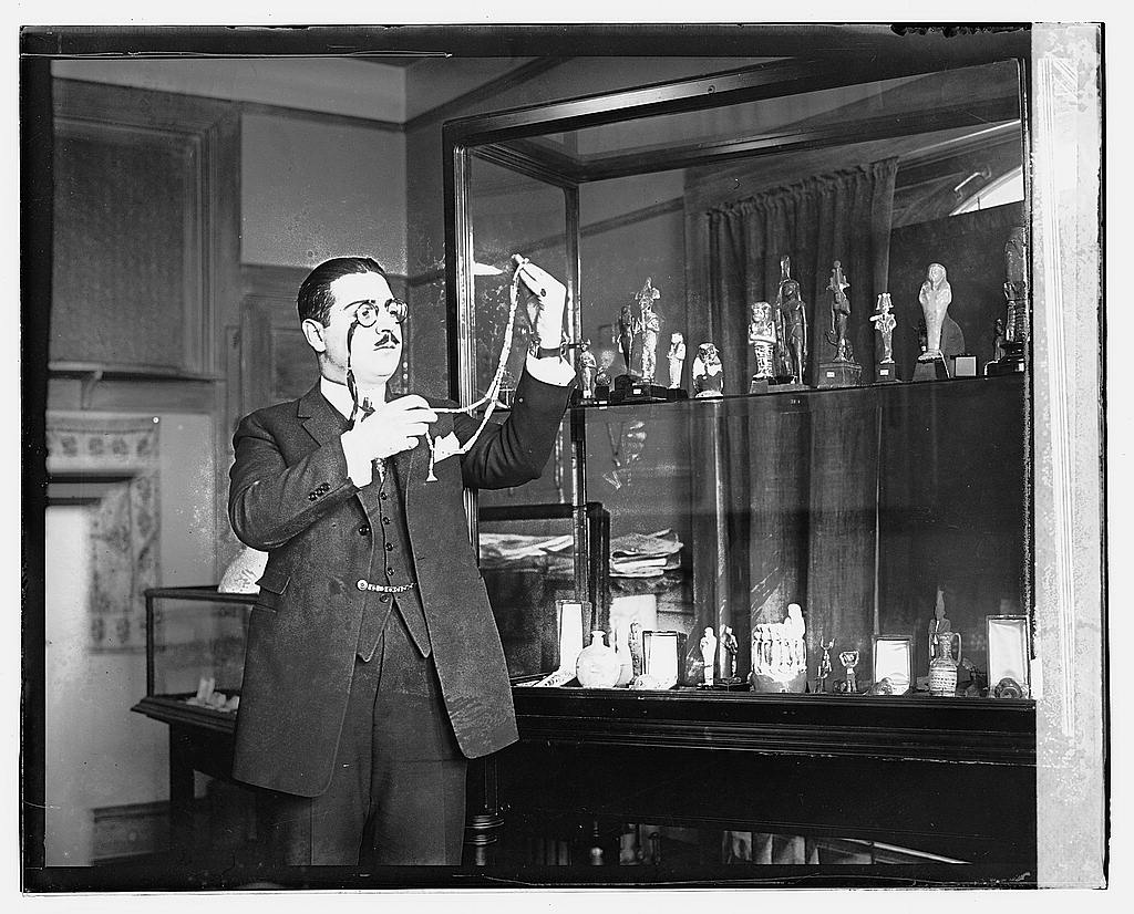 Victor A. Khayat looking at antiques.